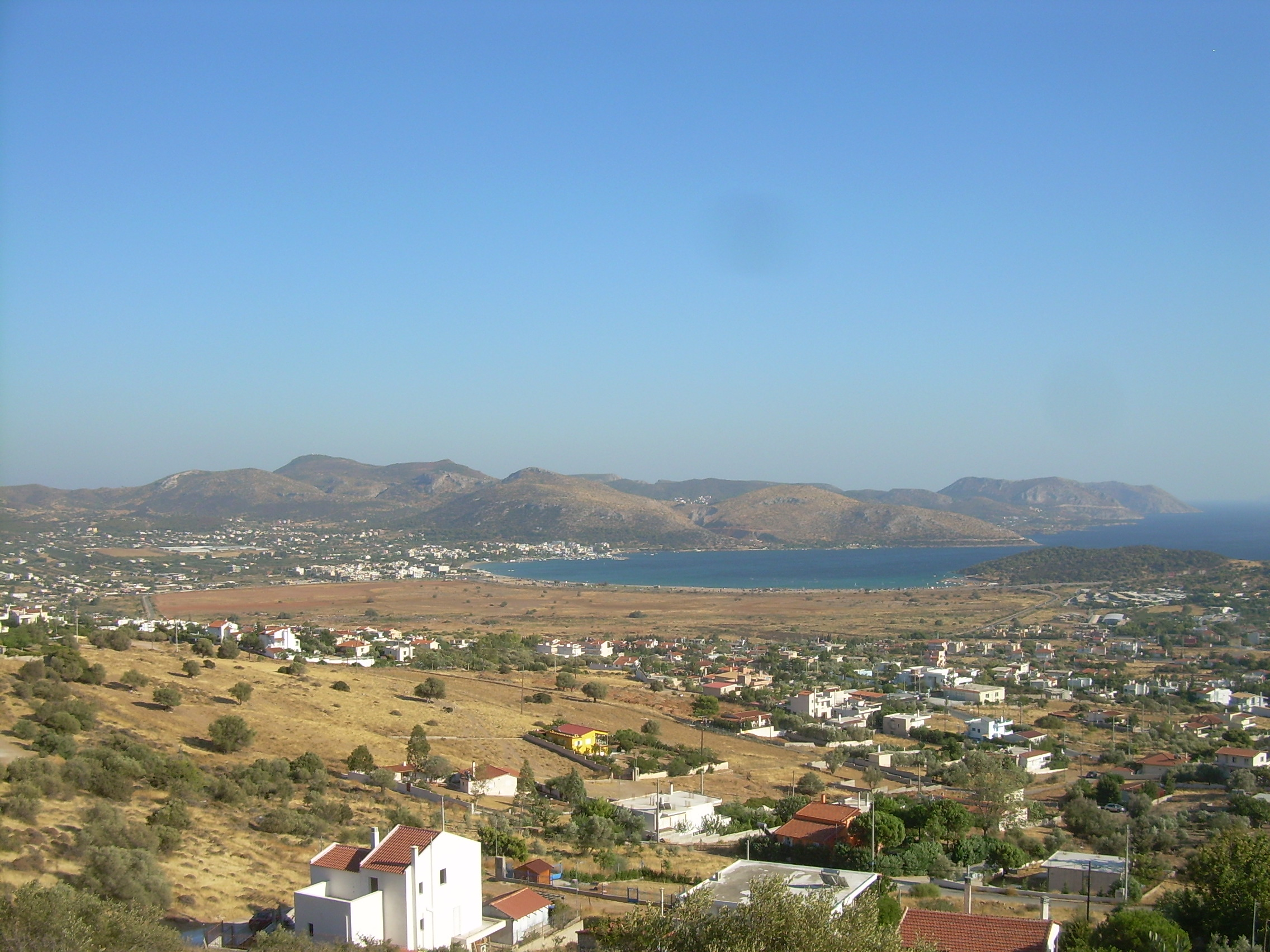 Anavyssos, former salt evaporation pond area